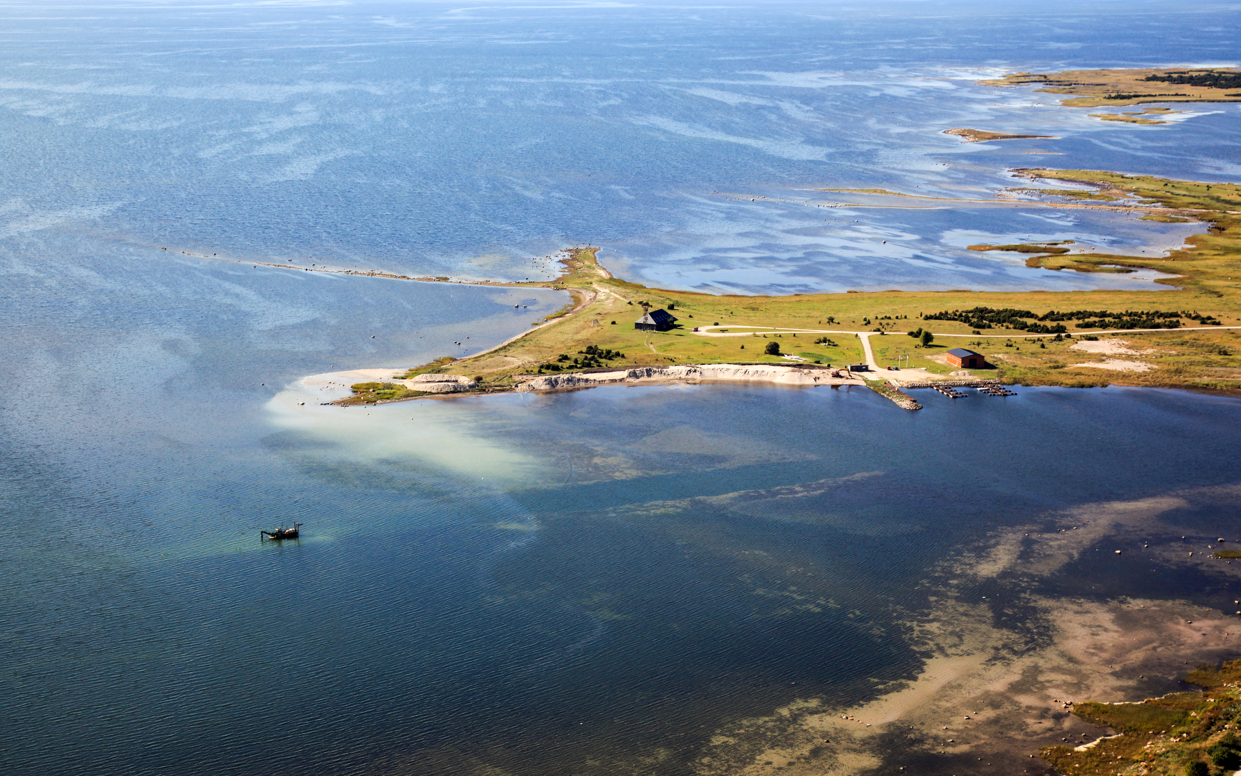 Lõmala harbour, 2015